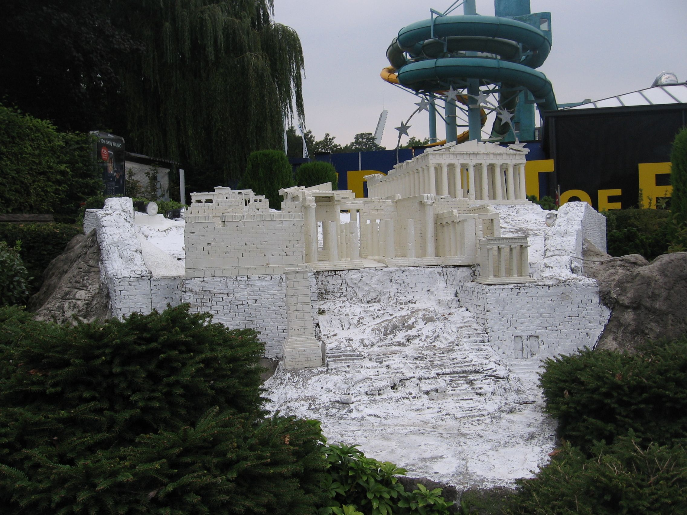 Mini Europe Park in Brussels, Belgium: Model of the Acropolis in Athens, Greece.